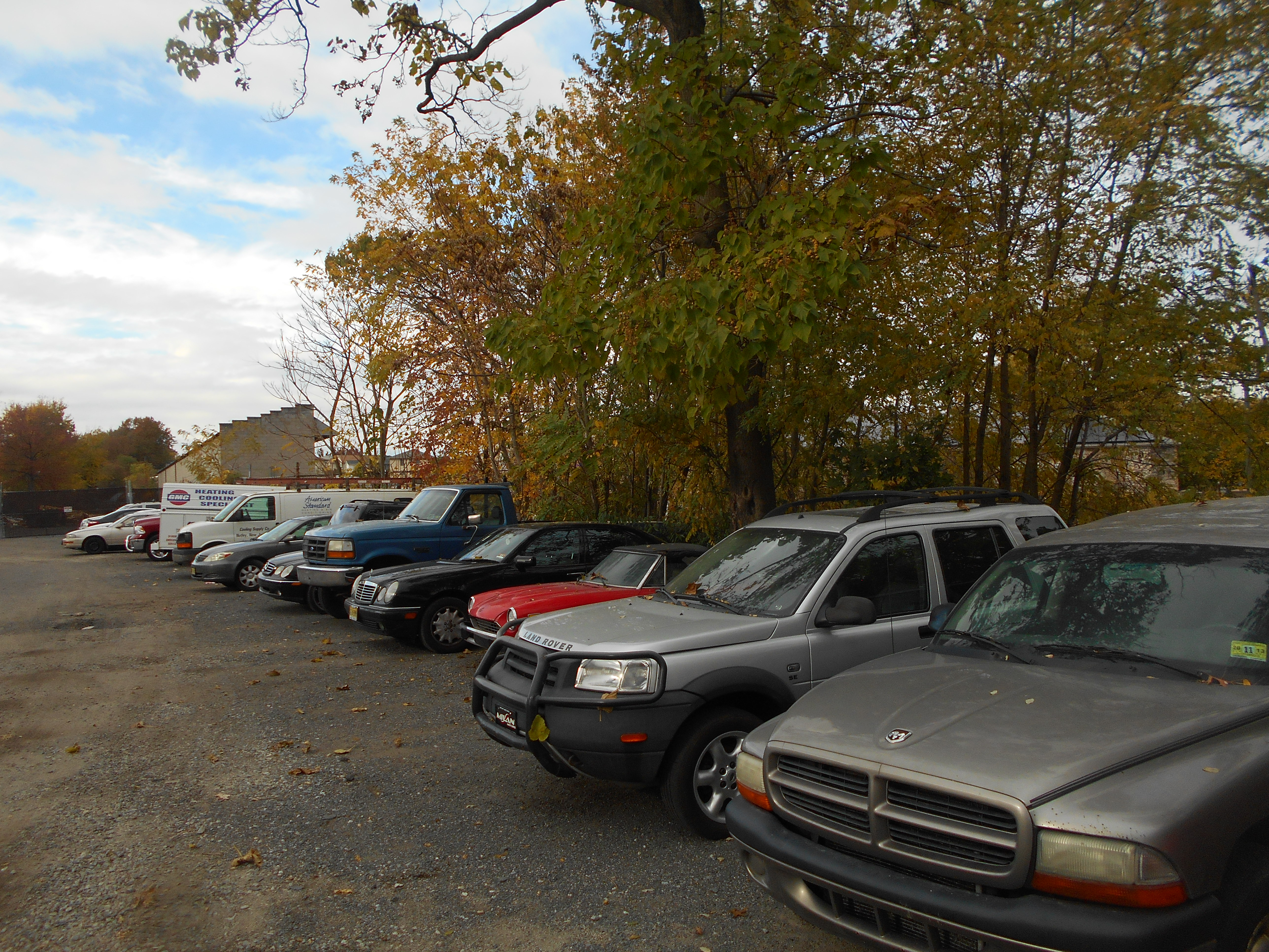 The former Clifton station on the Erie Railroad in downtown Clifton, New Jersey.